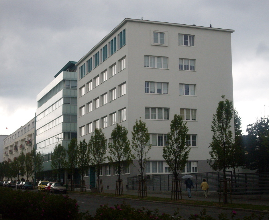 Principal house of Faculty of Biology also principal house of Faculty of Oceanography and Geography of Gdańsk University. Localisation at Marszałka Józefa Piłsudskiego Avenue in Gdynia.